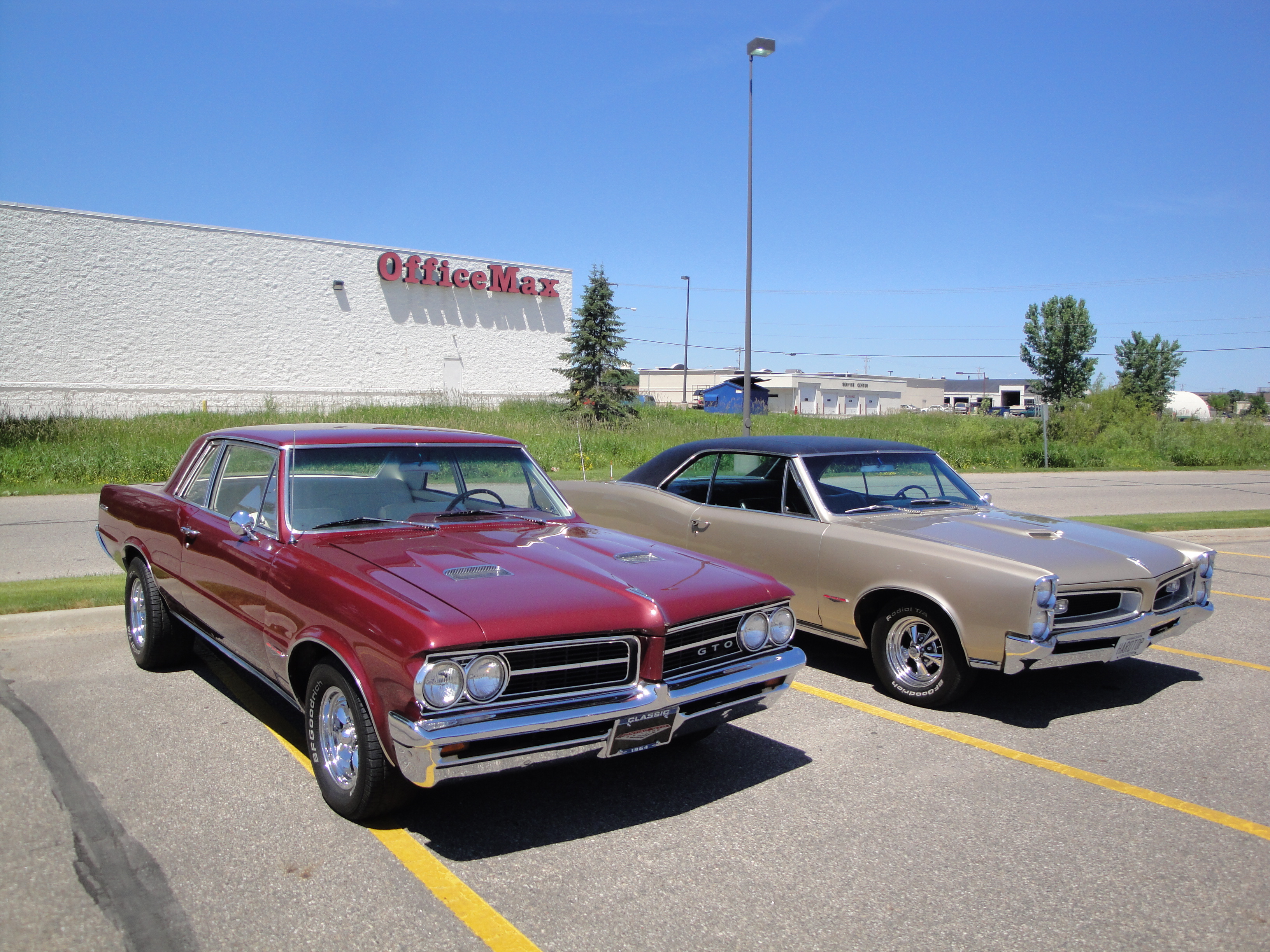 View On Black Thousands of car pictures at the link below